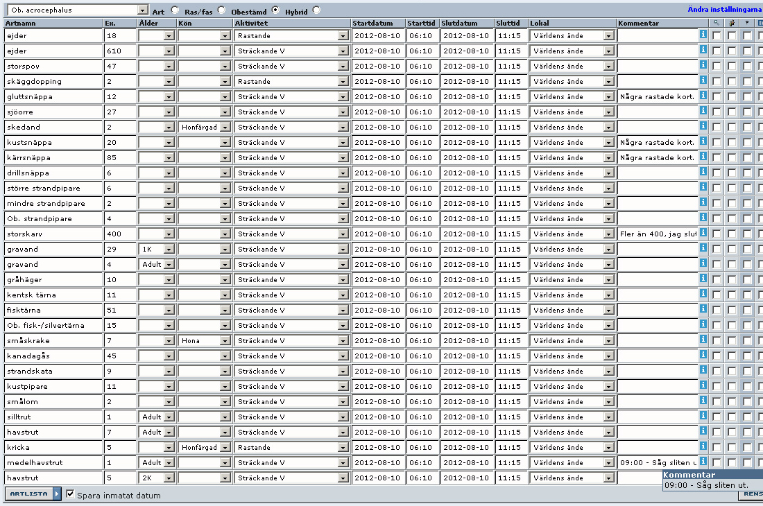 An example of a report after a few hours off counting. The report is filed in the Swedish Agricultural University database Artportalen / Svalan.